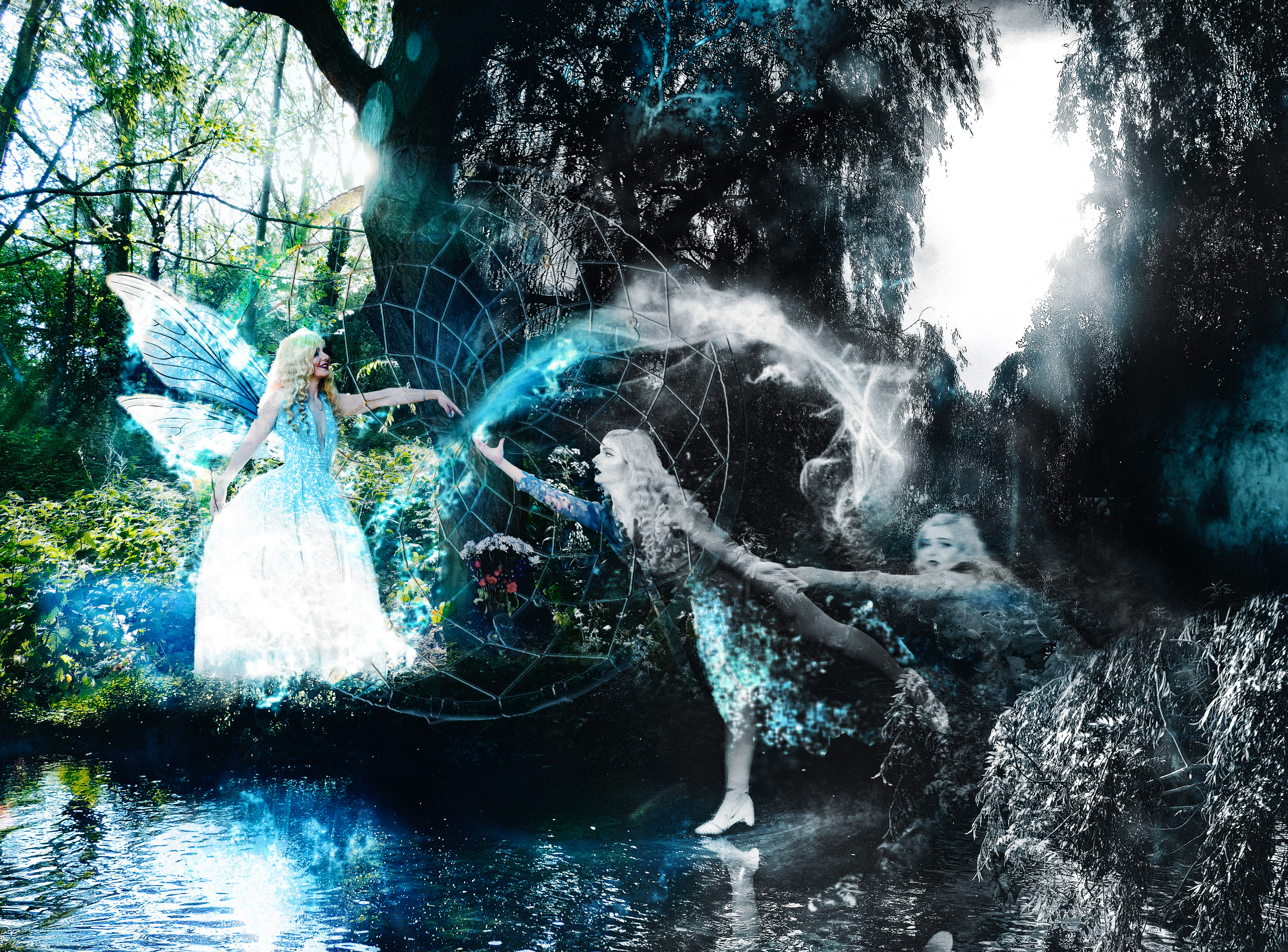 This peace in itself talks about dreams that often are a substitute to reality. A man to man conflict is established where the character fights itself in order to reach to a so portrayed imaginary hyperreality; a realm of magic. Subconscious is portrayed on the right, conscious on the centre and ideal self on the left. Again, the process of self realization and transformation is established in the piece. The image is as well associated with a dreamcatcher, protecting the character form the fears the present holds. by Sirio Berati @sirio